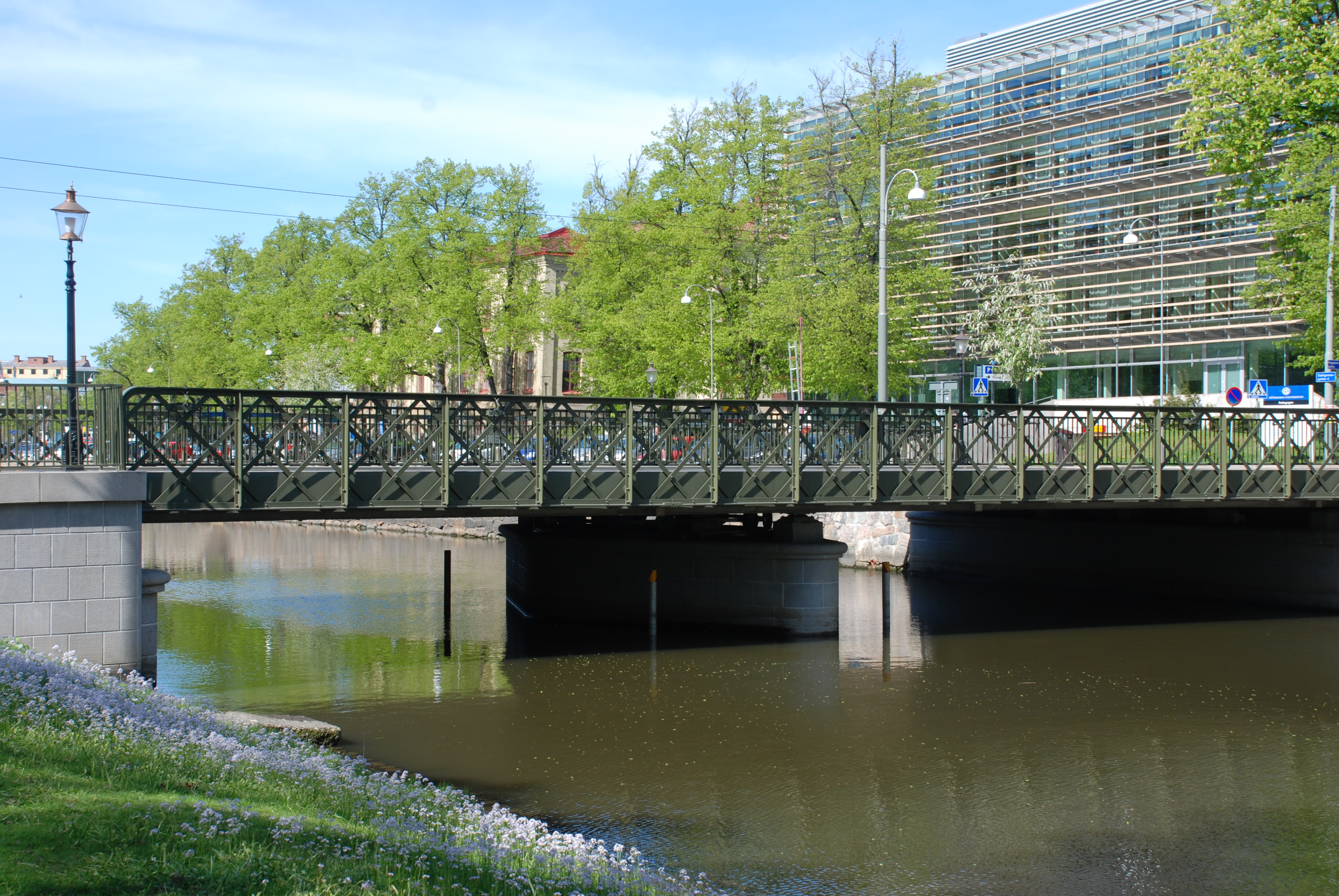 The Viktoria bridge over the moat in Göteborg from south east.